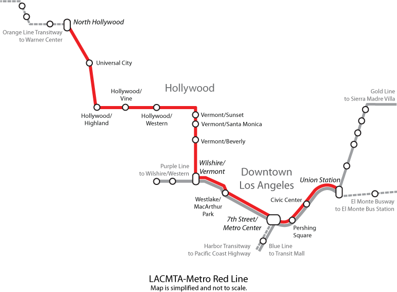 Map of the Red Line in Los Angeles, California. Created 2006, by Ricky Courtney, please credit.